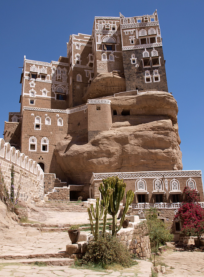 Dar al-Hajar, a mansion built in the 1930's as a summer retreat to Imam Yahya near Sana'a, Yemen